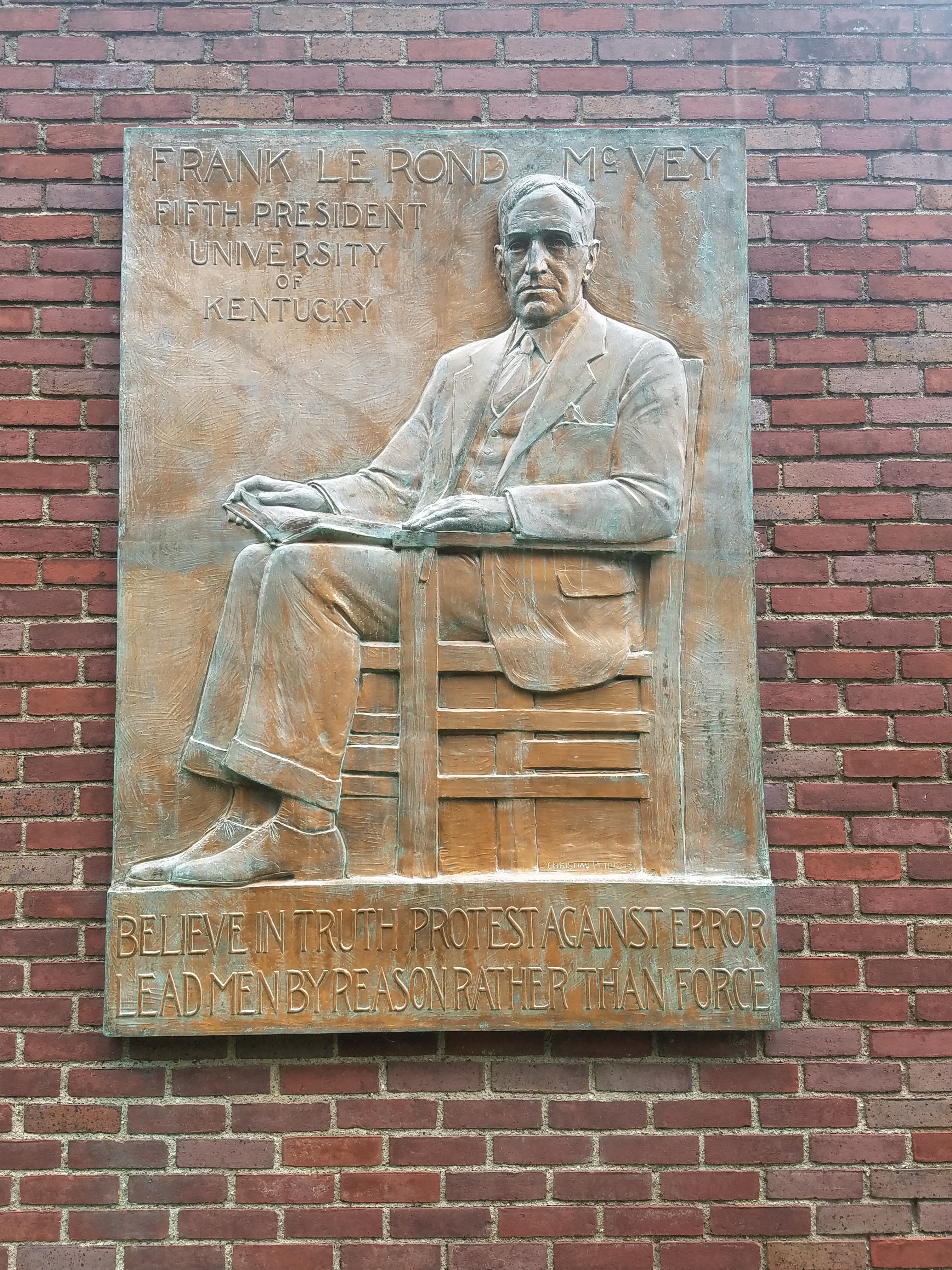 Photo of Frank Lerond McVey Plaque, University of Kentucky, taken in 2020, with quote "Believe in truth, protest against error, lead men by reason rather than force." Plaque lists him as fifth president, rather than third.